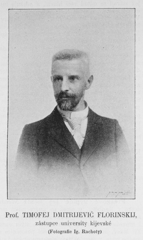 Portrait of Timofey Florinskiy (Russian: Тимофей Дмитриевич Флоринский, 1854-1919), Russian historian, professor of Kiev University. The picture was taken during his visit to Prague where he took part in celebrations of František Palacký's 100th birthday.